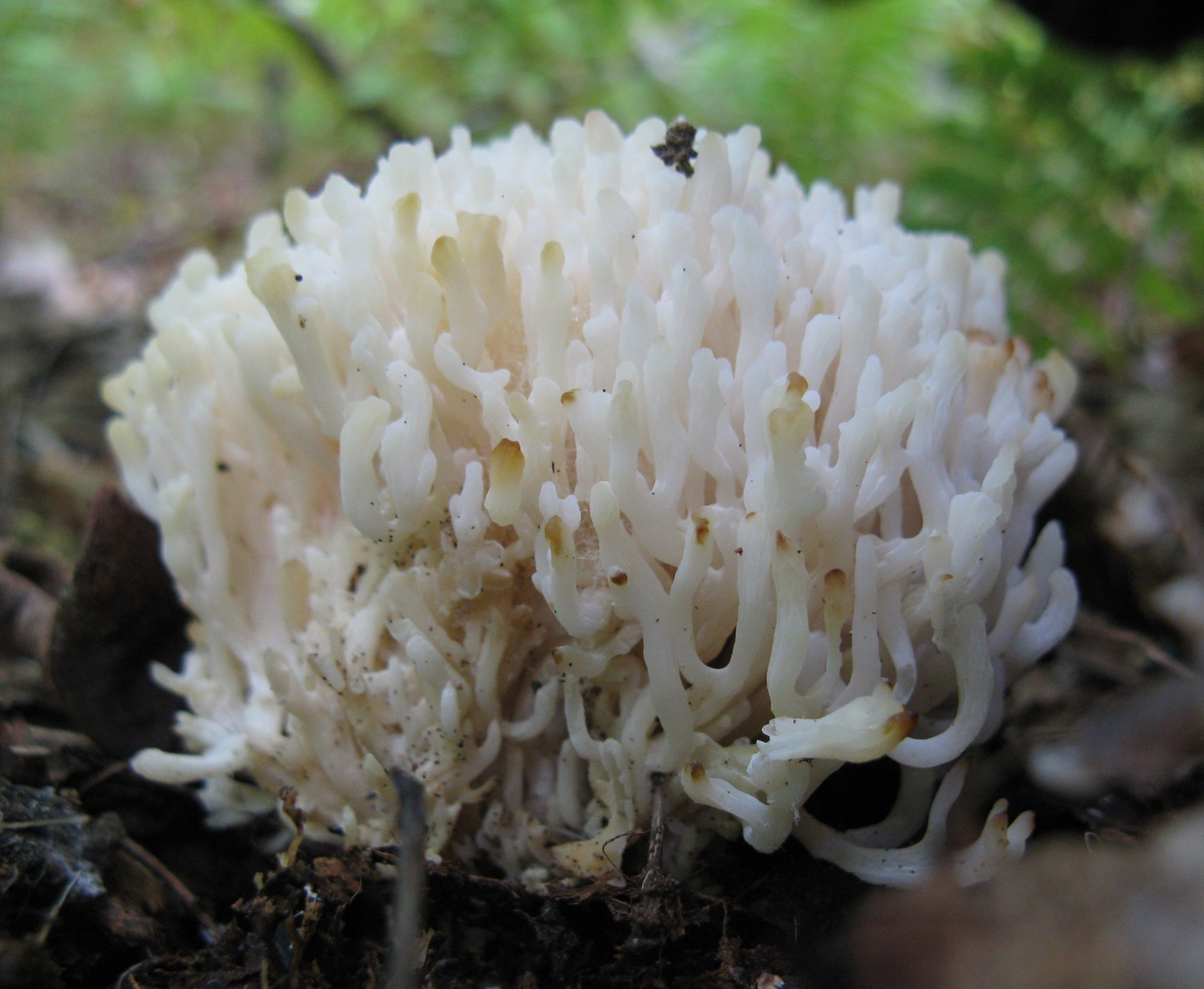 Tremellodendron pallidum (Schw.) Atk. Location: Norwich, Windsor Co., Vermont, USA Observation Notes: Tremellodendron pallidumCommon name: Jellied False CoralThis Jelly fungi was about 7 cm. wide by 6 cm. tall. Was growing on the forest floor. The forest was primarily Paper Birch and Maple trees with some Pine and Hemlock. For more information about this, see the observation page at Mushroom Observer.